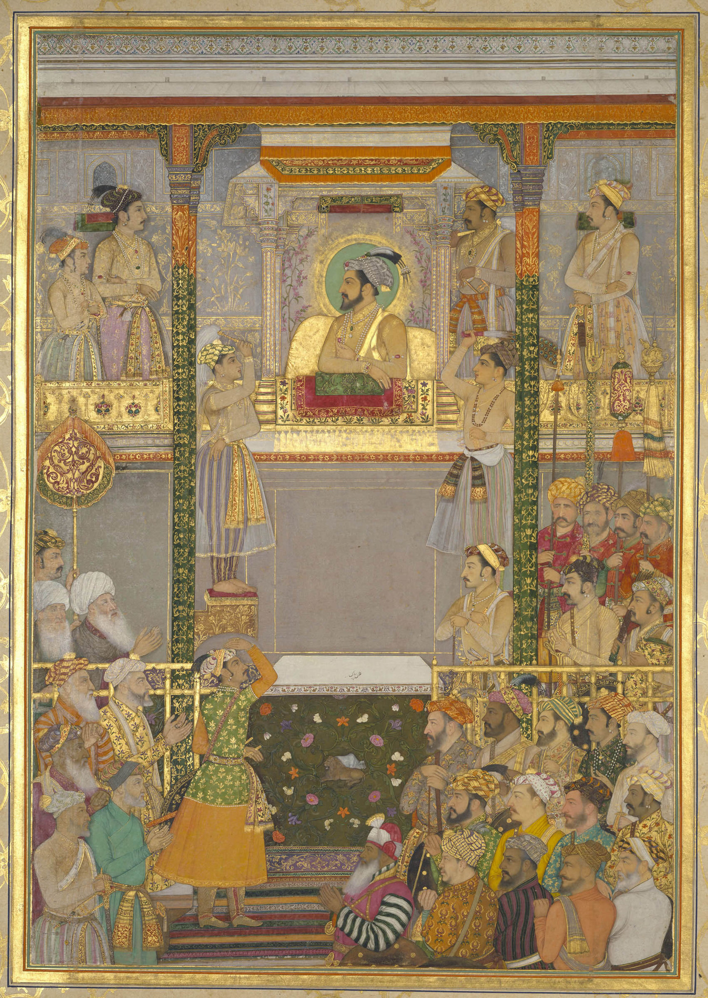 Darbar of Shah Jahan, Page from the Windsor Padshahnama, ca. 1657, The Royal Library, Windsor Castle